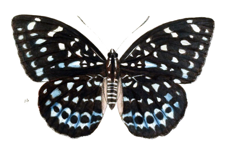 Adolias albopunctata